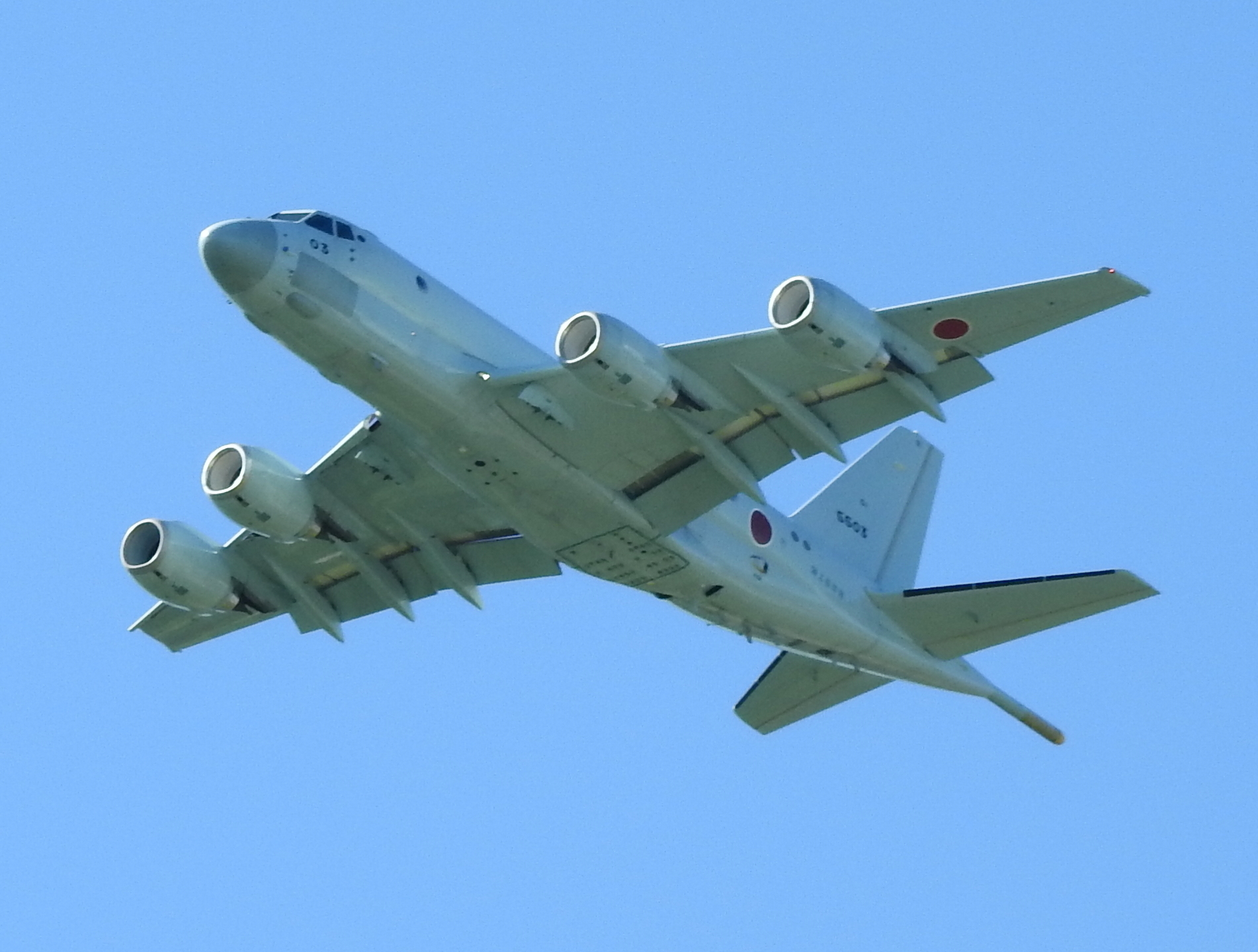 A Kawasaki P-1 patrol aircraft taking off from Atsugi Naval Air Facility, Kanagawa prefecture, Japan